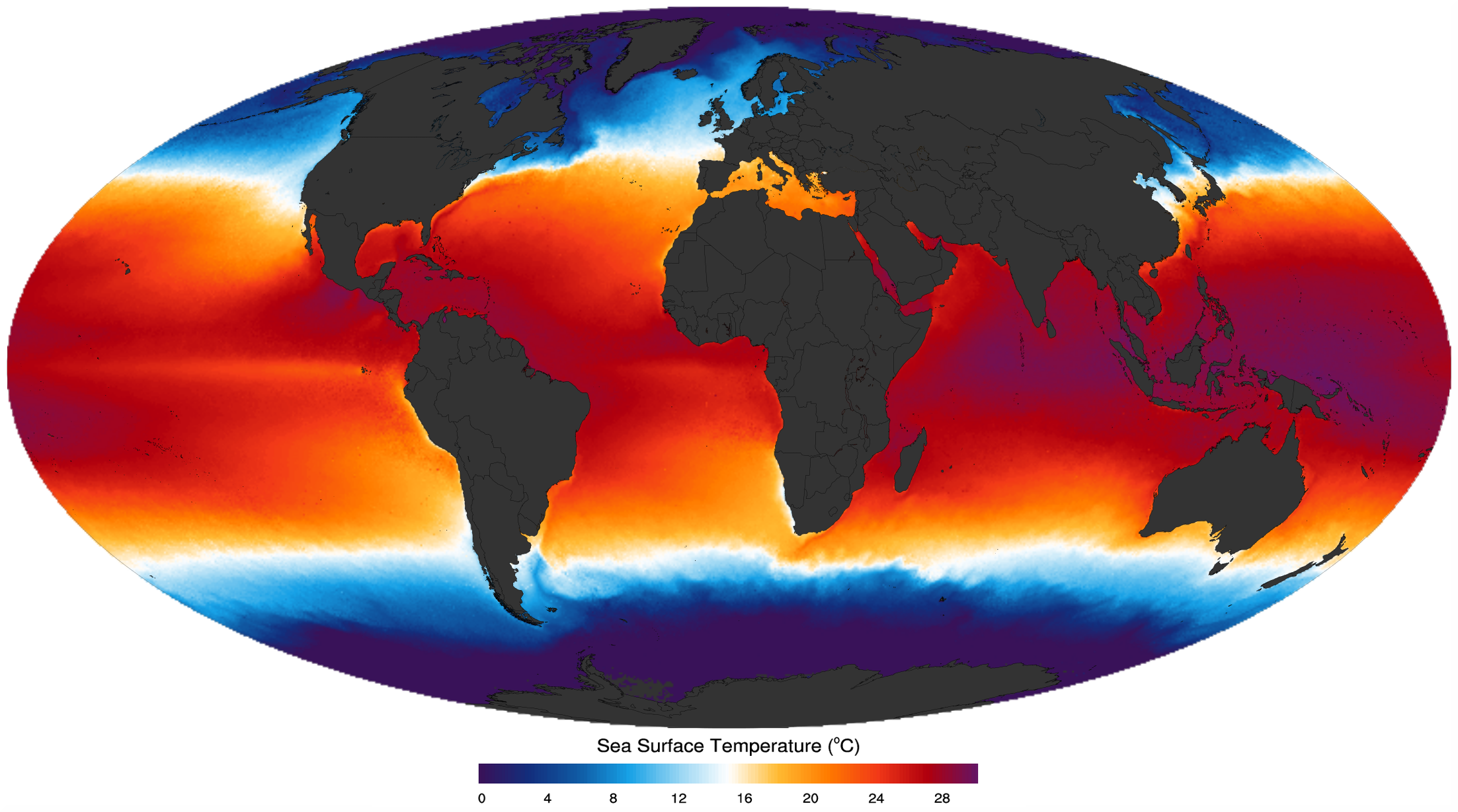 MODIS Aqua sea surface temperature 2003-2011 average. Data